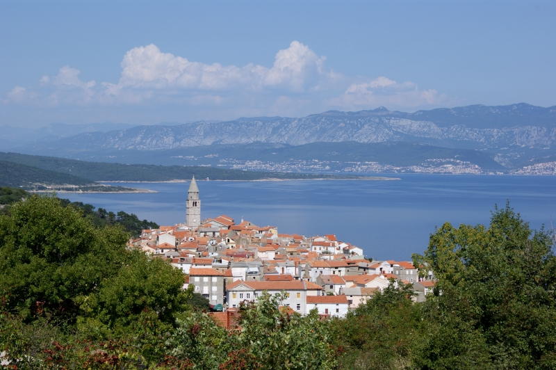 Vrbnik, Island of Krk, Croatia